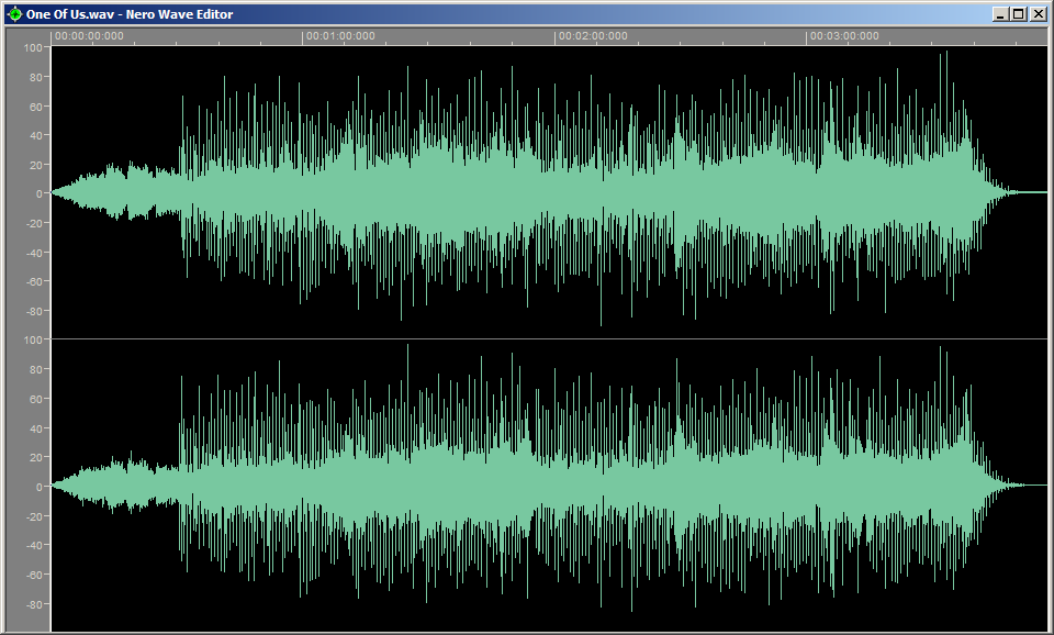 Screen shot of WAV file ripped from audio CD (for Loudness War page)